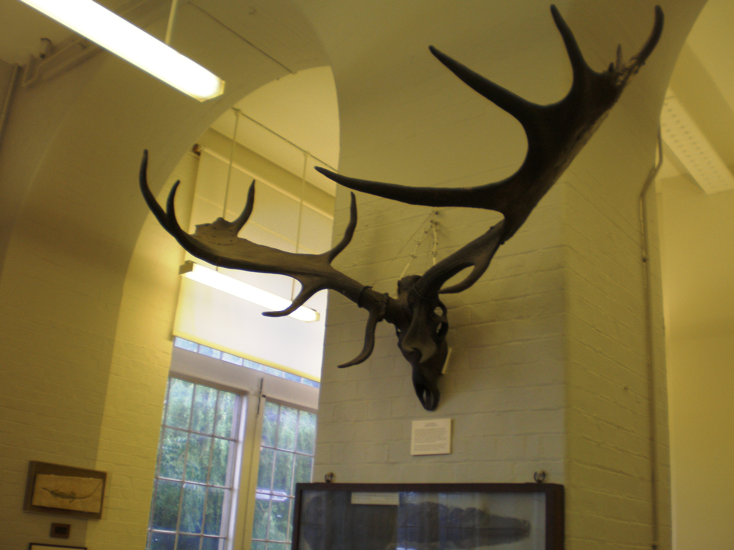 Megaloceros horns. Lapworth Museum of Geology, Birmingham University